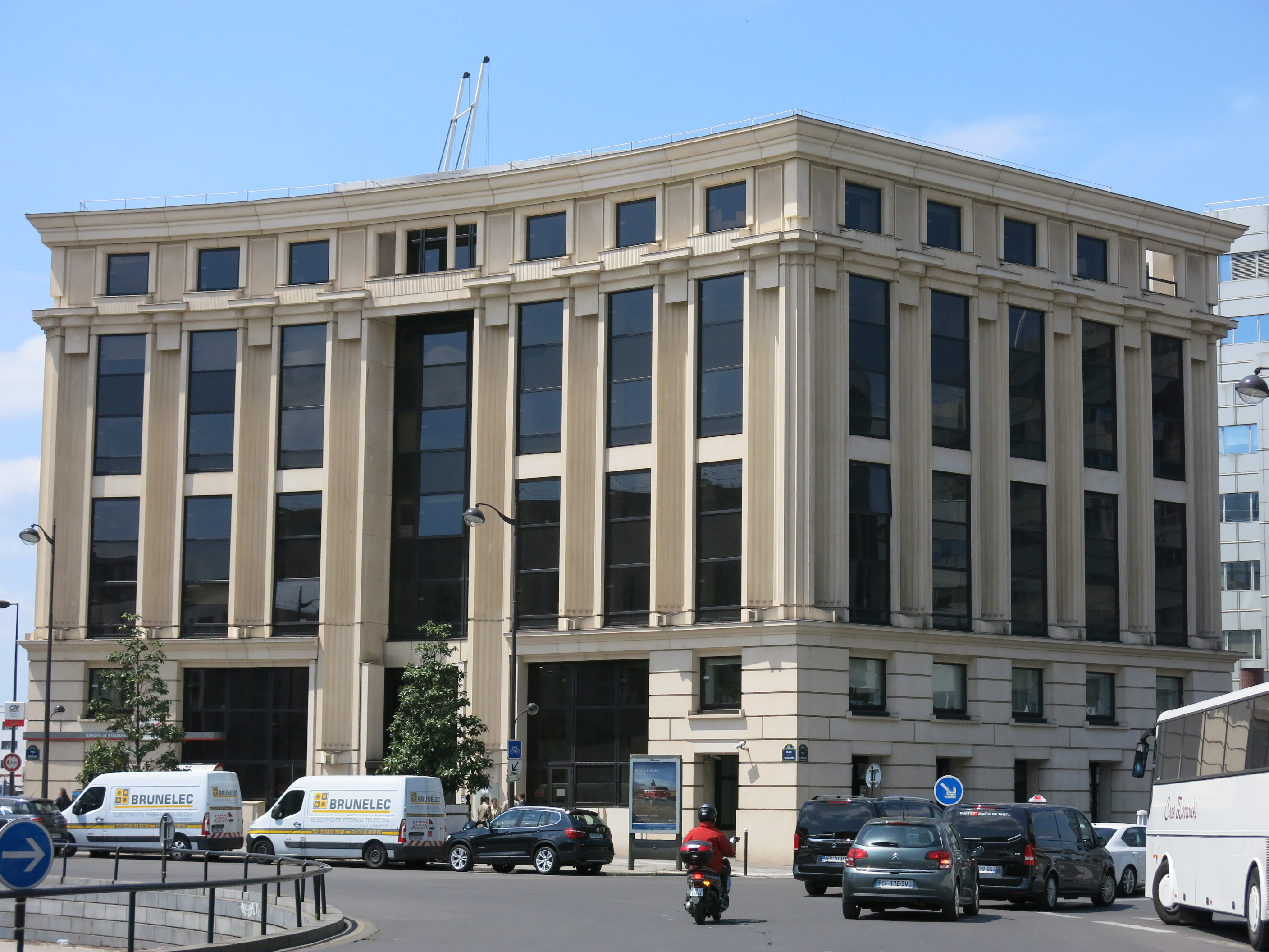 Building 23 place de Catalogne, Paris 14th arrond. (France). - Head office of the Agency for French Education Abroad